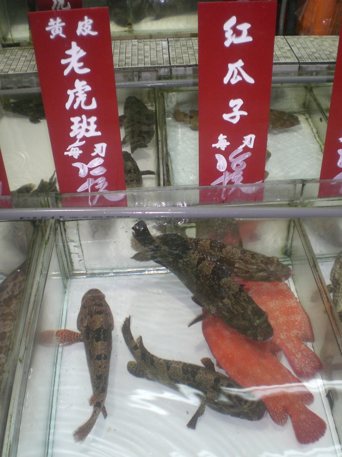 灣仔zh:德記號海鮮 中國數碼標價的 海鮮